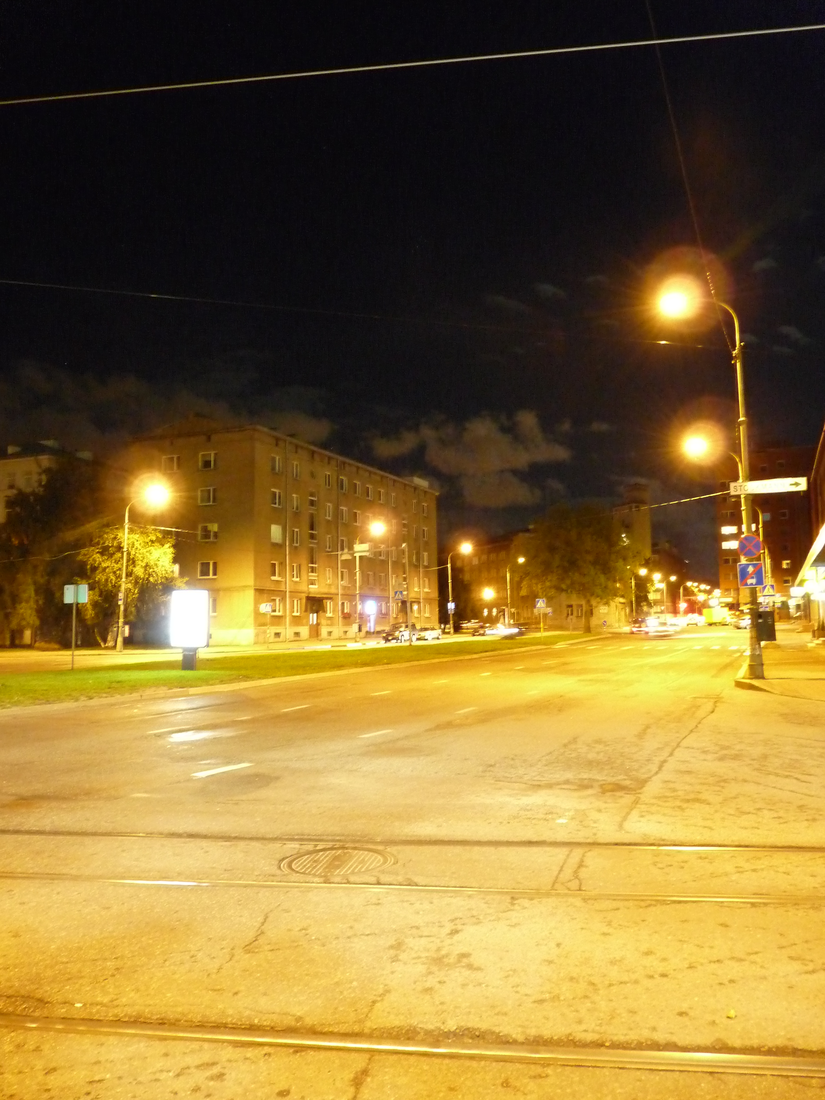 Gonsiori